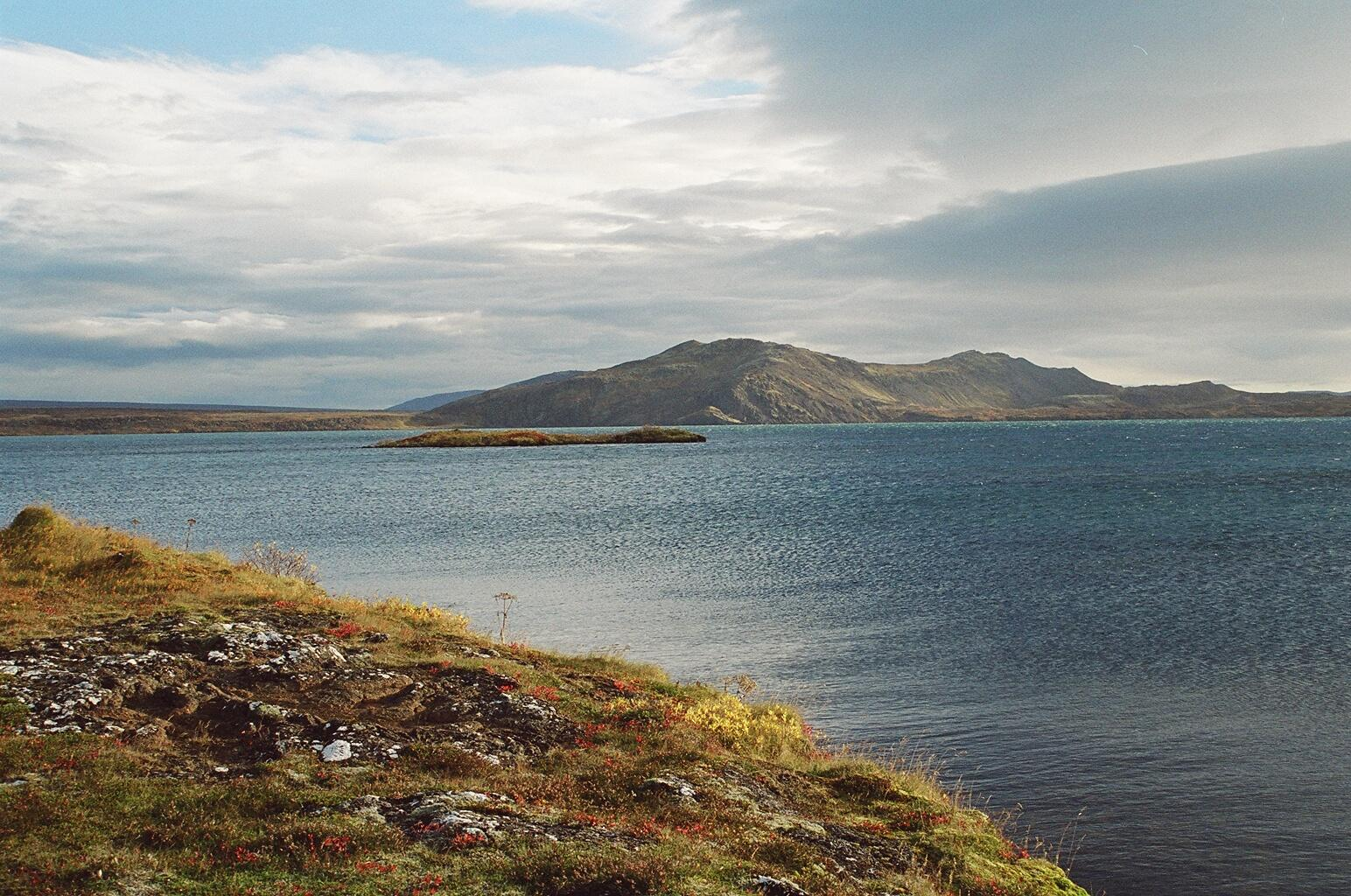 Thingvallavatn in autumn 2004, GNU-FDL I took the photo by my-self in october 2004, no other copyrights involved.